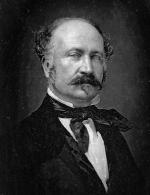 Half plate daguerreotype of John Sutter